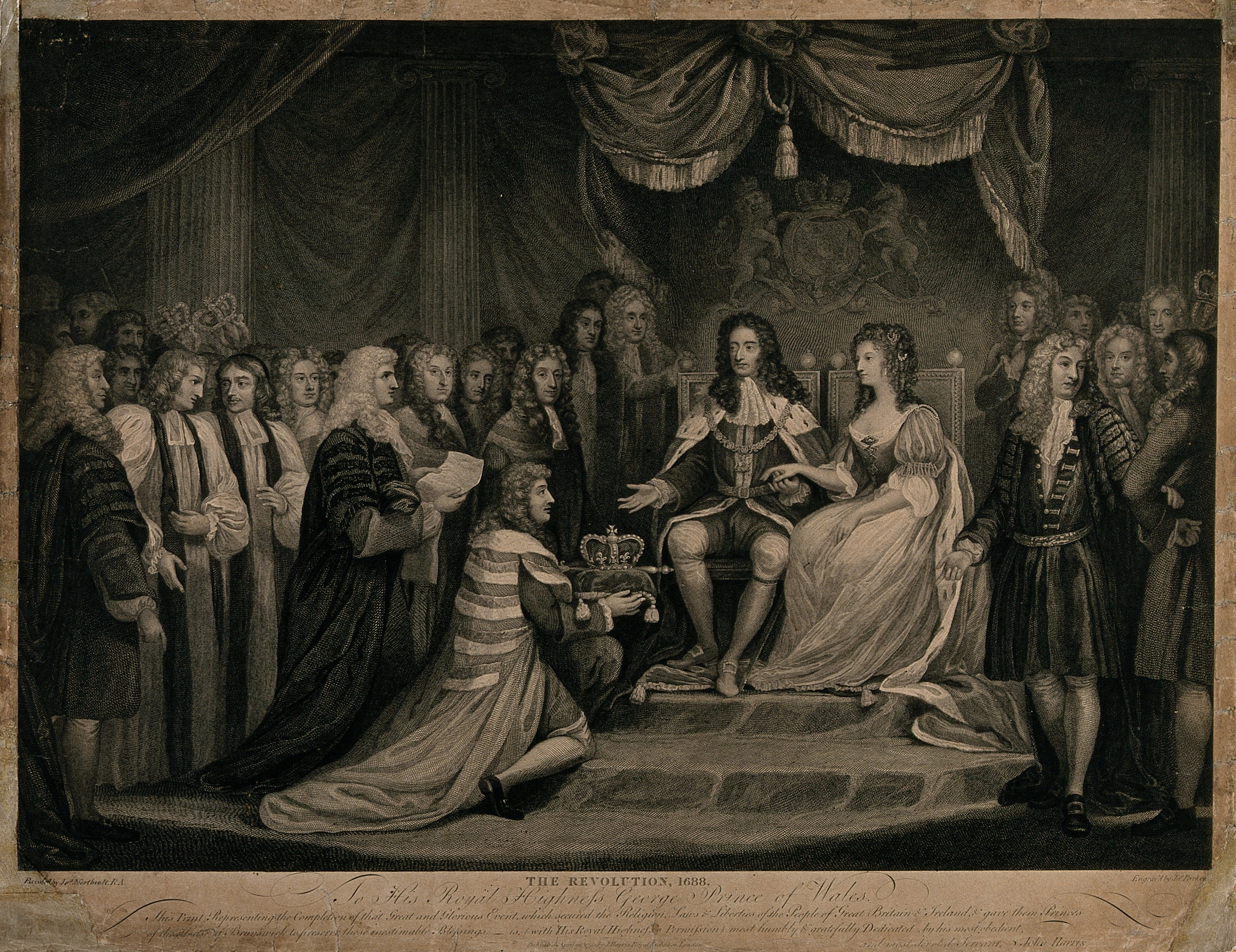 William of Orange, and Mary, his English wife are presented with the crown. Line engraving by J. Parker after J. Northcote, 1790. Iconographic Collections Keywords: Royalty; James Northcote; James Parker